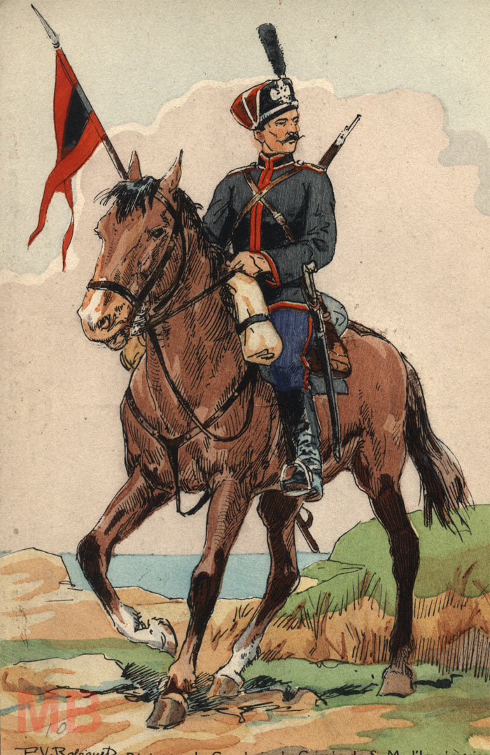 Uniform of Krymsky Regiment. 1914 Postcard.